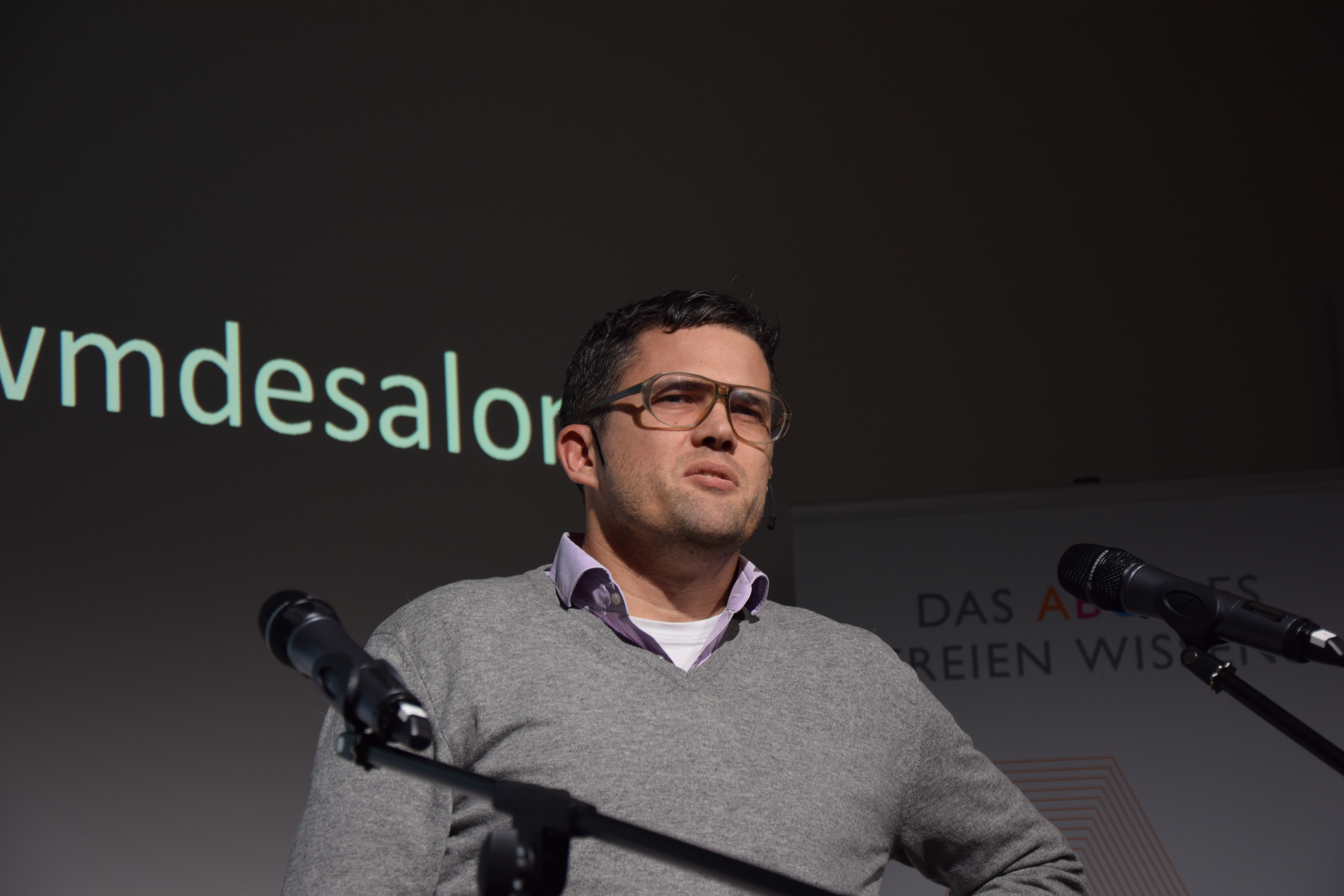 This is a photo of a conference at the Wikimedia Salon.